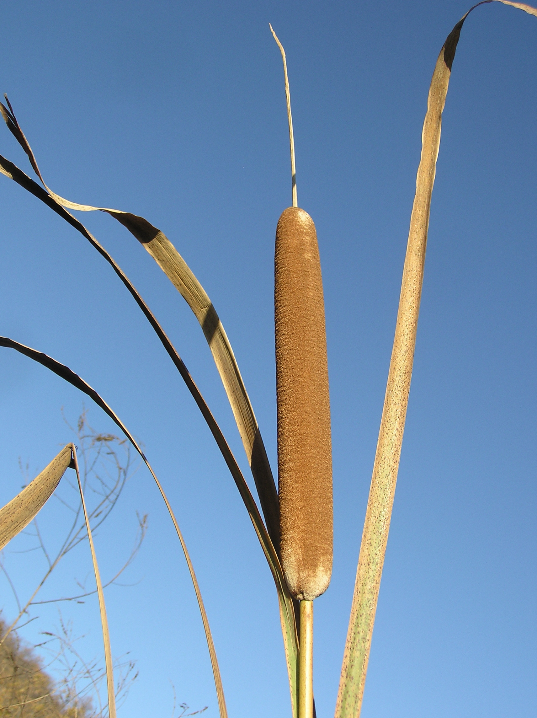 Typha domingensis Pers. (Southern Cattail). Habitat: a pond. Vicinity of Saratov city, Russia.